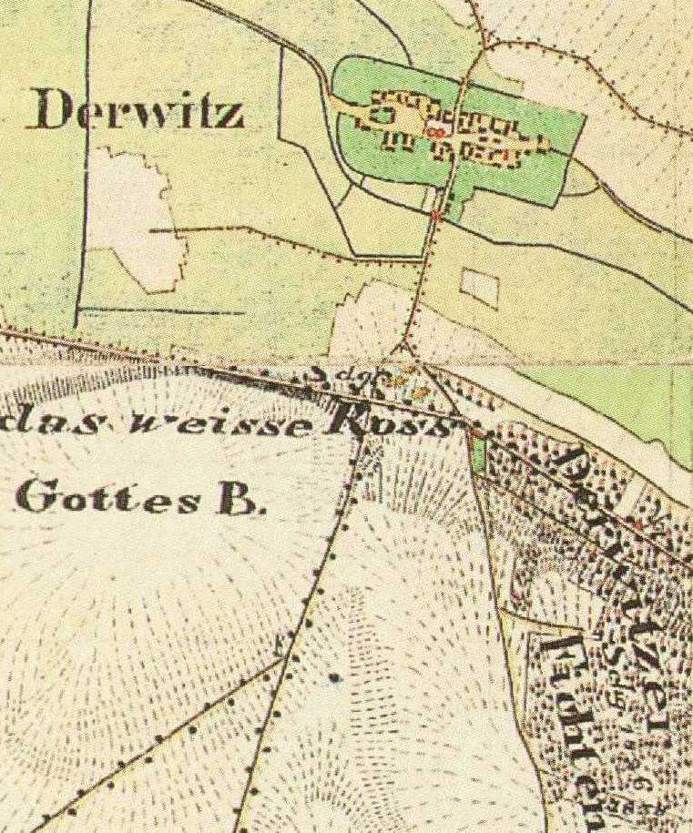 Derwitz, Stadt Werder (Havel), Lkr. Potsdam-Mittelmark, Brandenburg, Germany, Detail from the Urmesstischblatt Sheet 3542 Groß Kreutz and 3642 Lehnin, both drawn in 1839